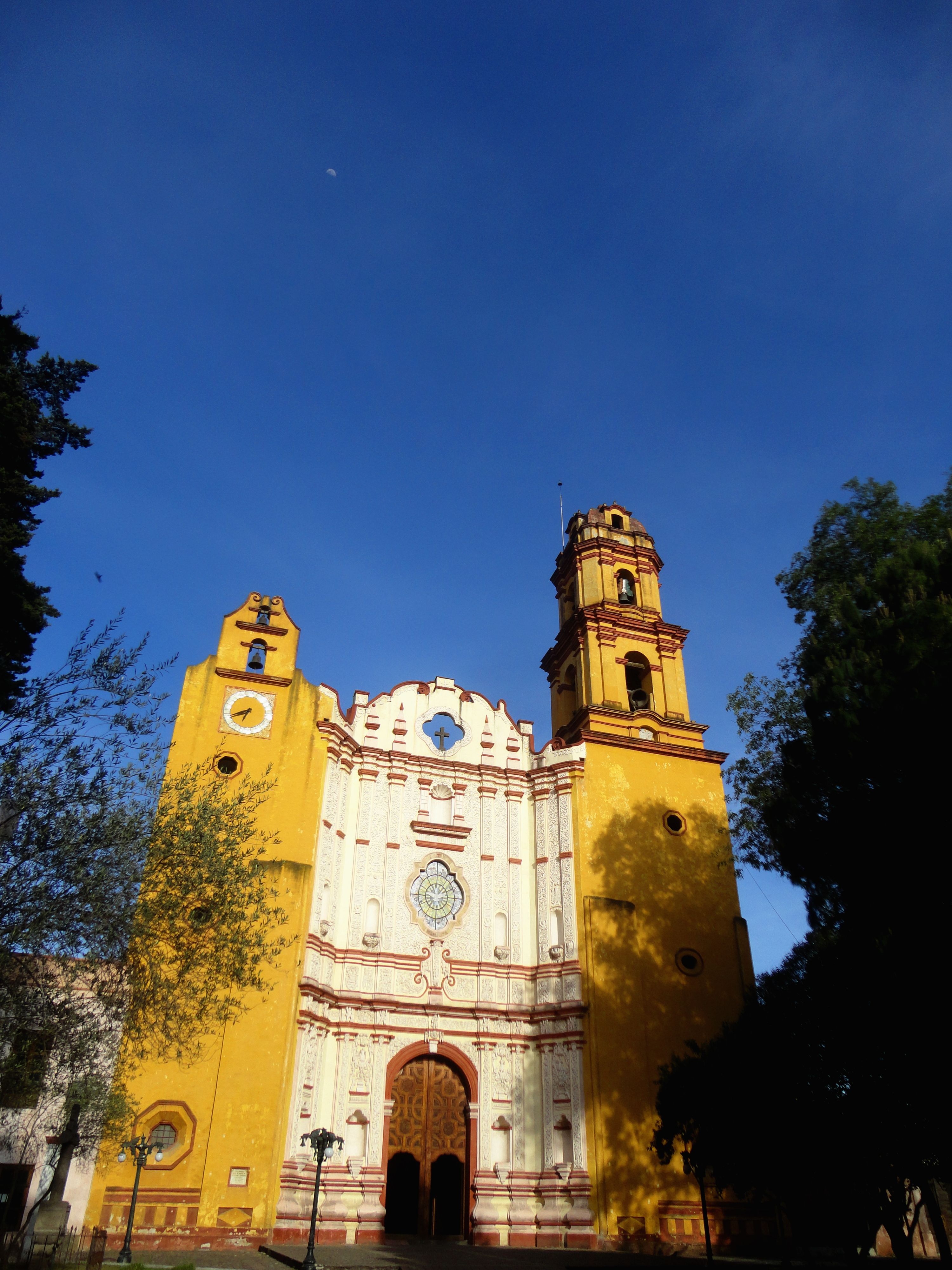 Parroquia de San Juan Bautista - Metepec, Edomex, México.